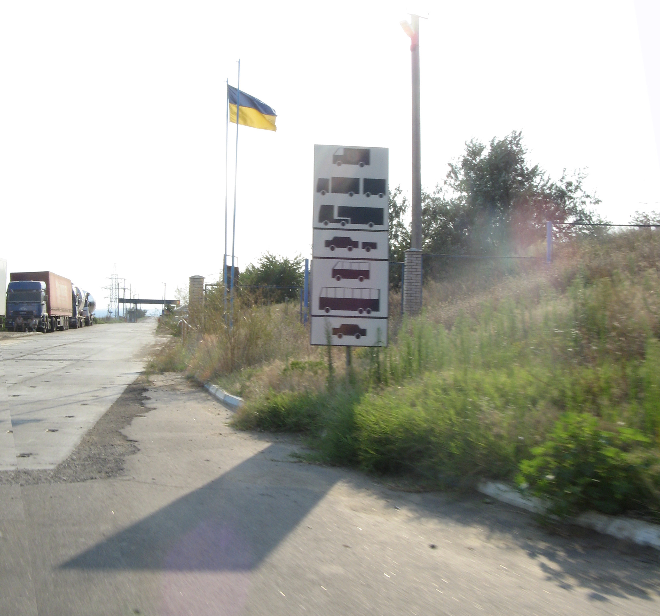 Crossing moldova border in Reni, Ukraina